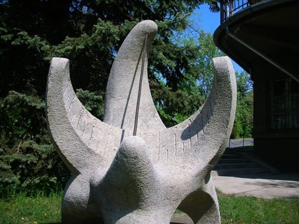 Sun-dial